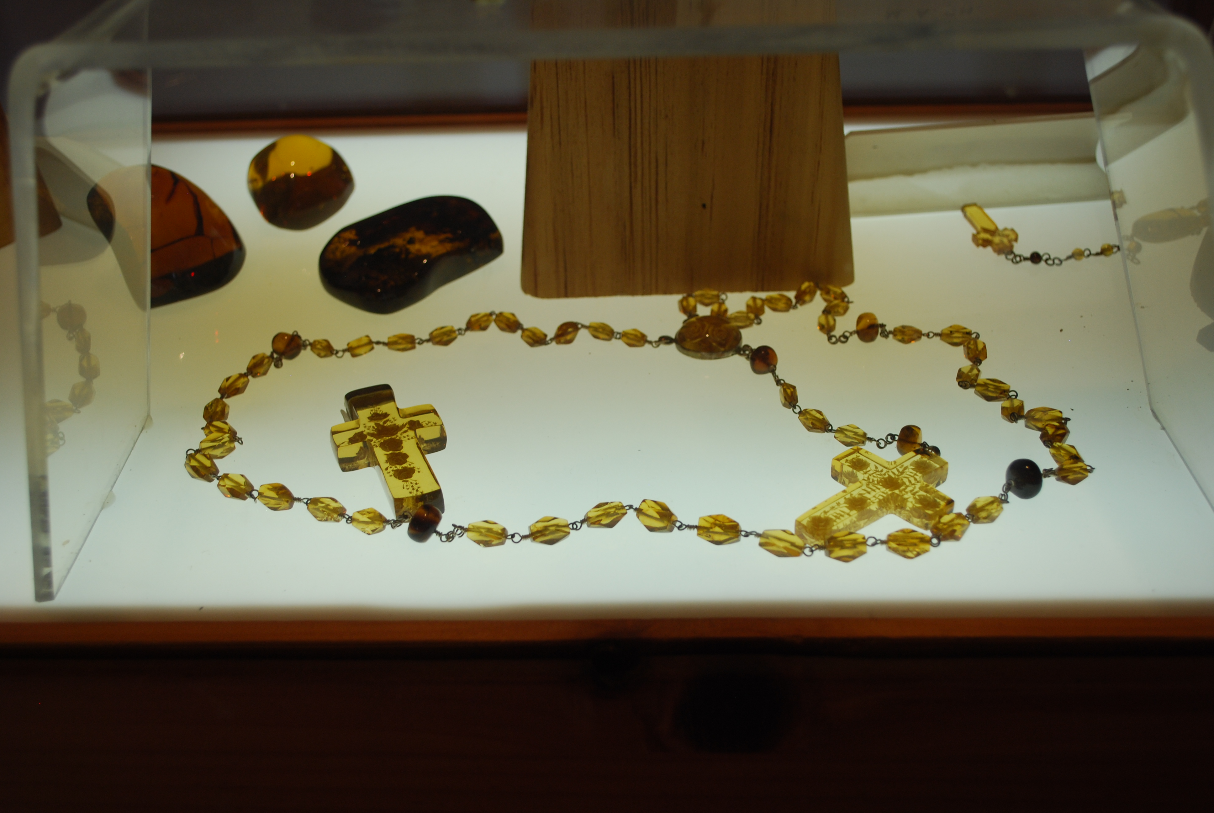 Rosary and other objects on display at the Museum of Amber in San Cristobal de las Casas, Chiapas, Mexico